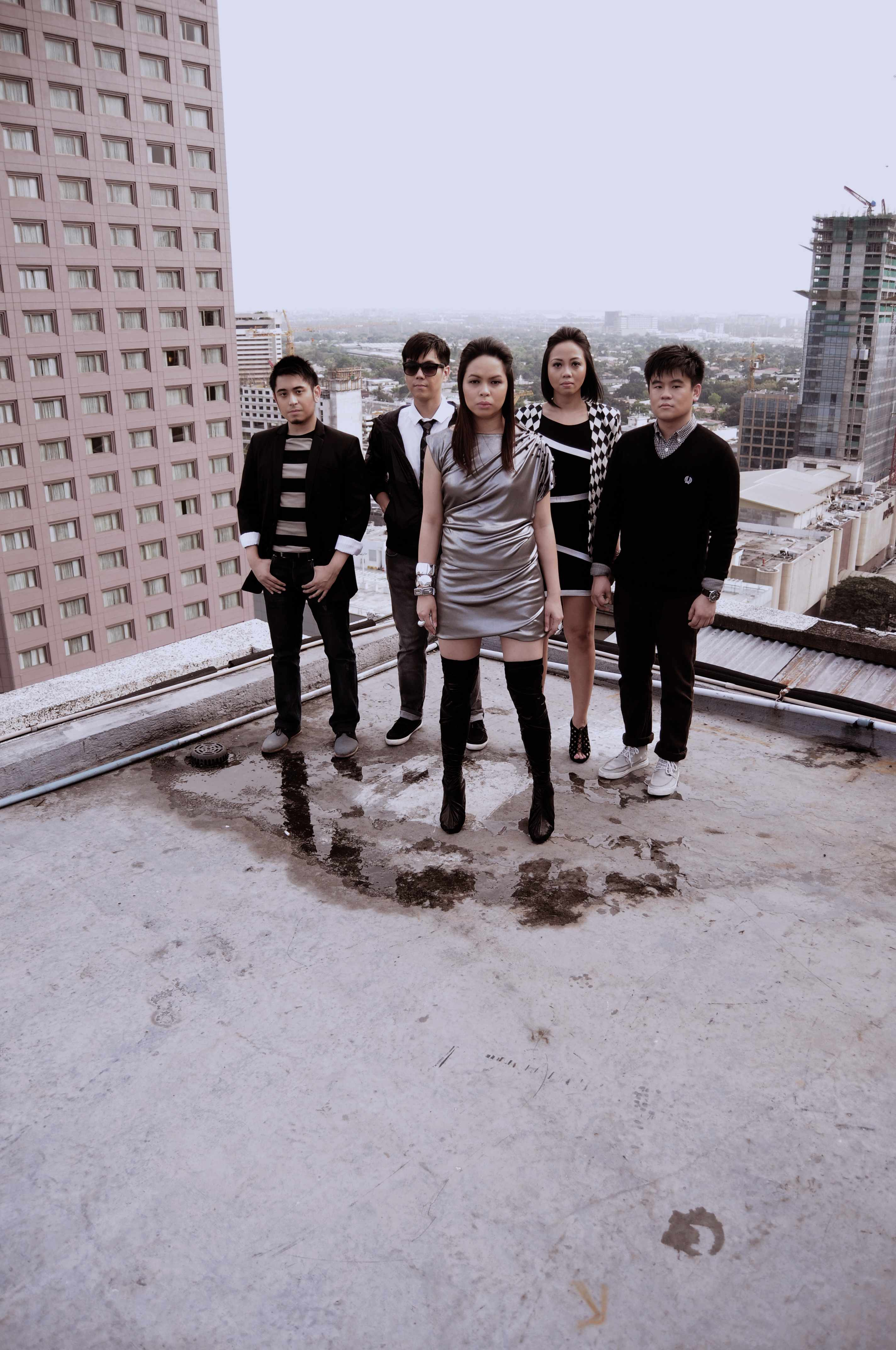 Dualist cover photo shoot